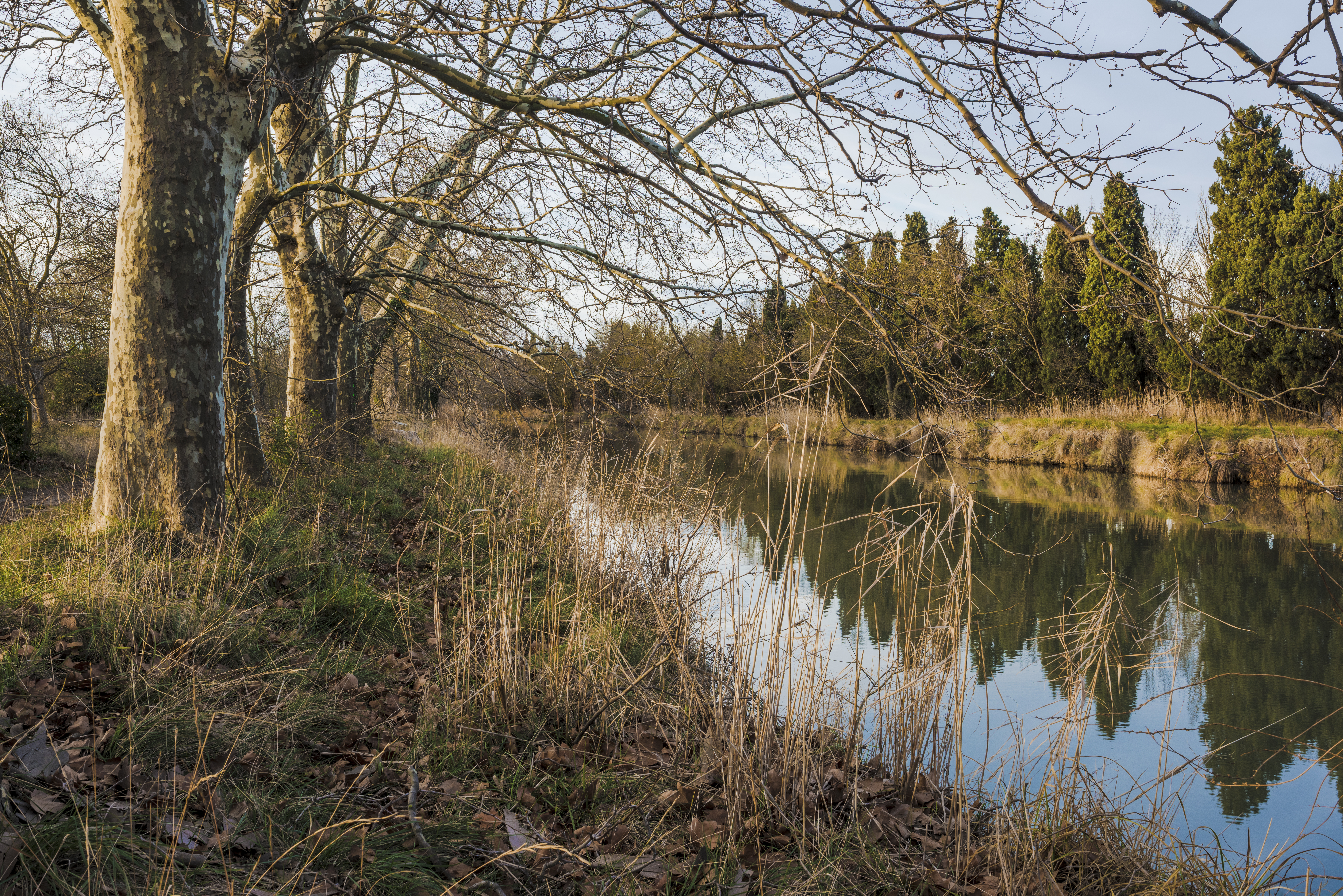 Canal du Midi - Vias, Hérault, France